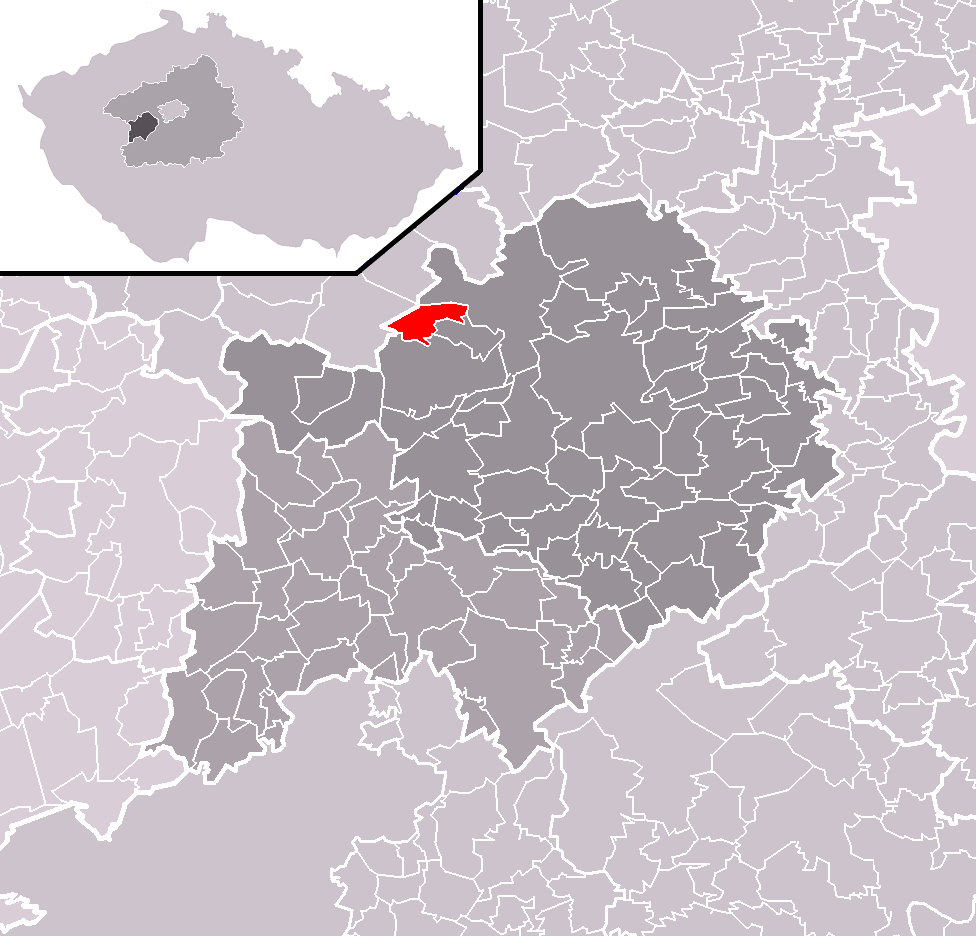 Location of Nový Jáchymov municipality within Beroun District and administrative area of Beroun as a Municipality with Extended Competence.